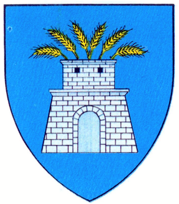 Interwar coat of arms of Sibiu County, Kingdom of Romania.